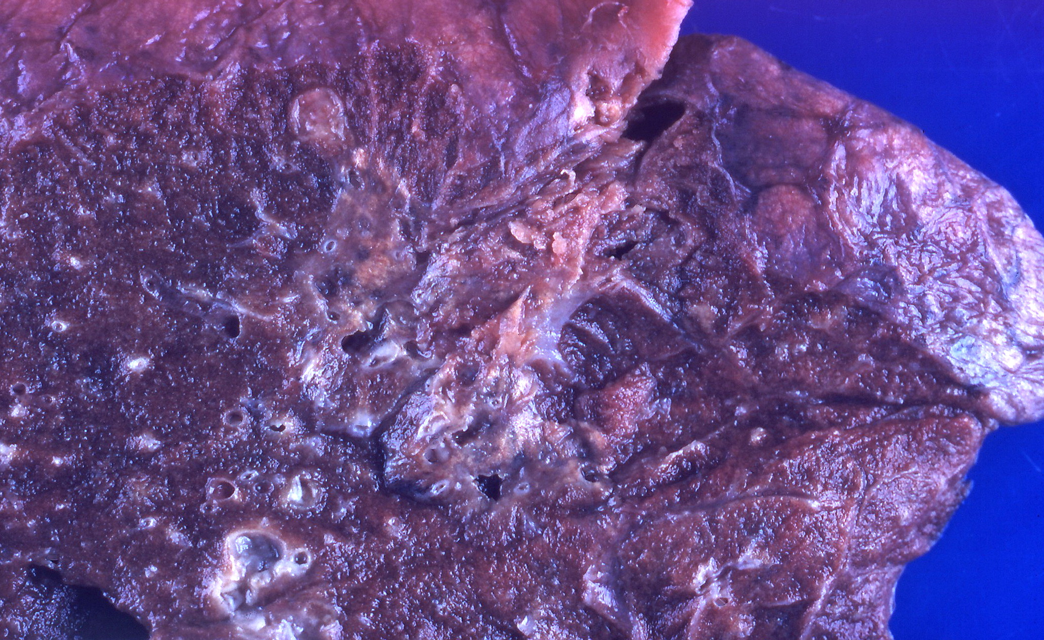 Several small nodular areas of consolidation are present.